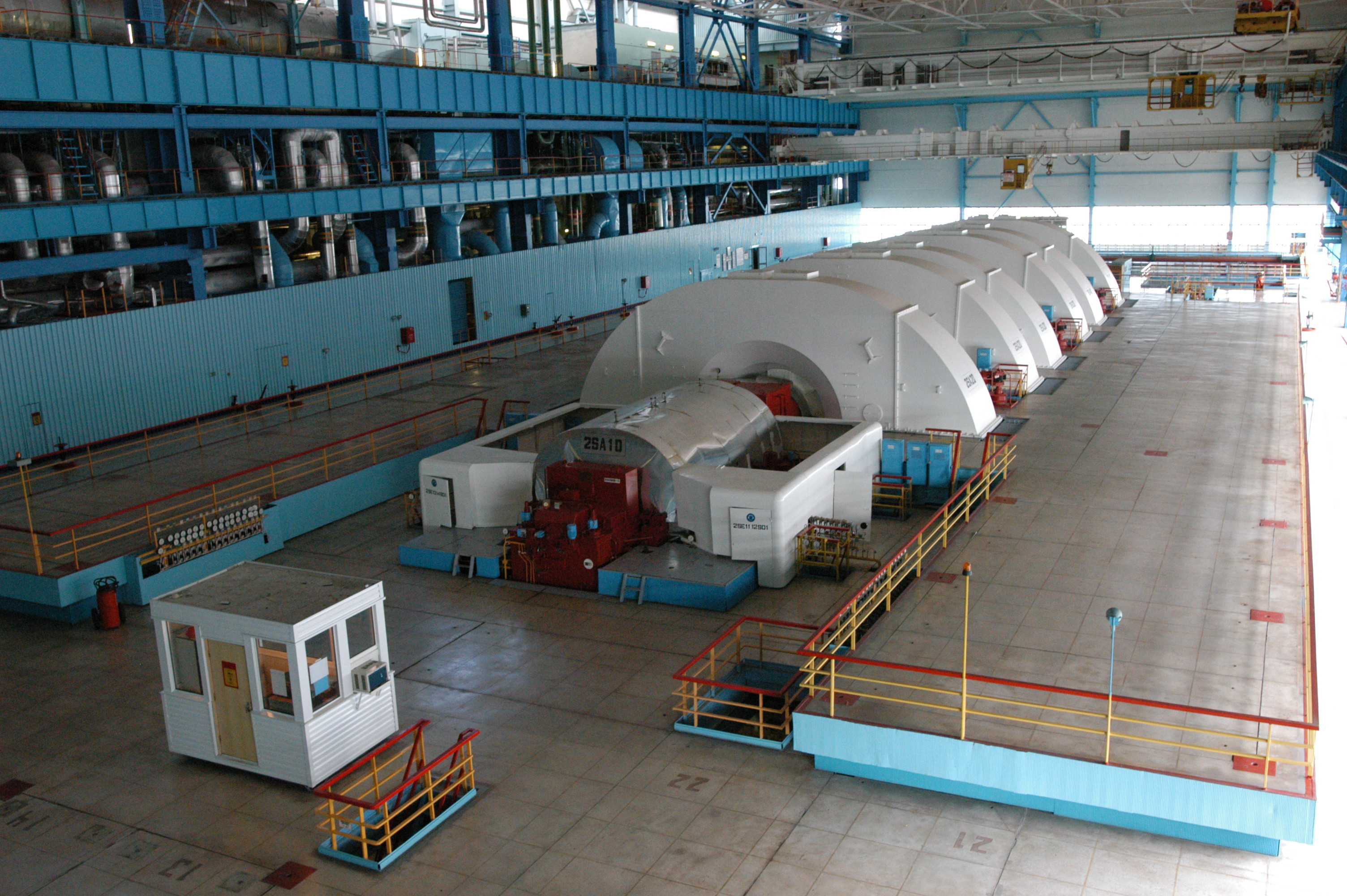 A steam turbine at the Balakovo Nuclear Power Plant